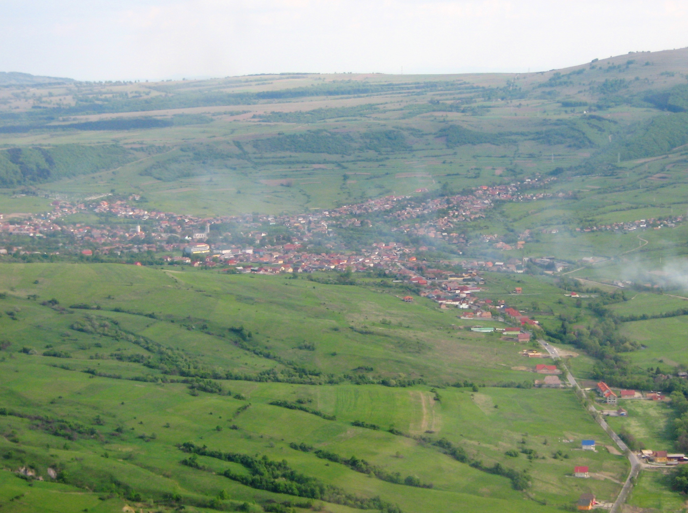 Korond (Corund),village in Székely Land, Romania